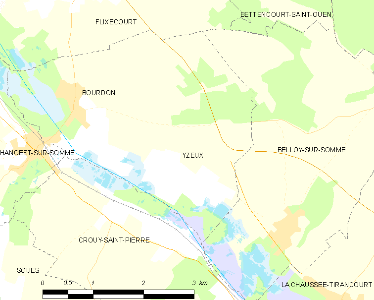 Map of French municipality Yzeux